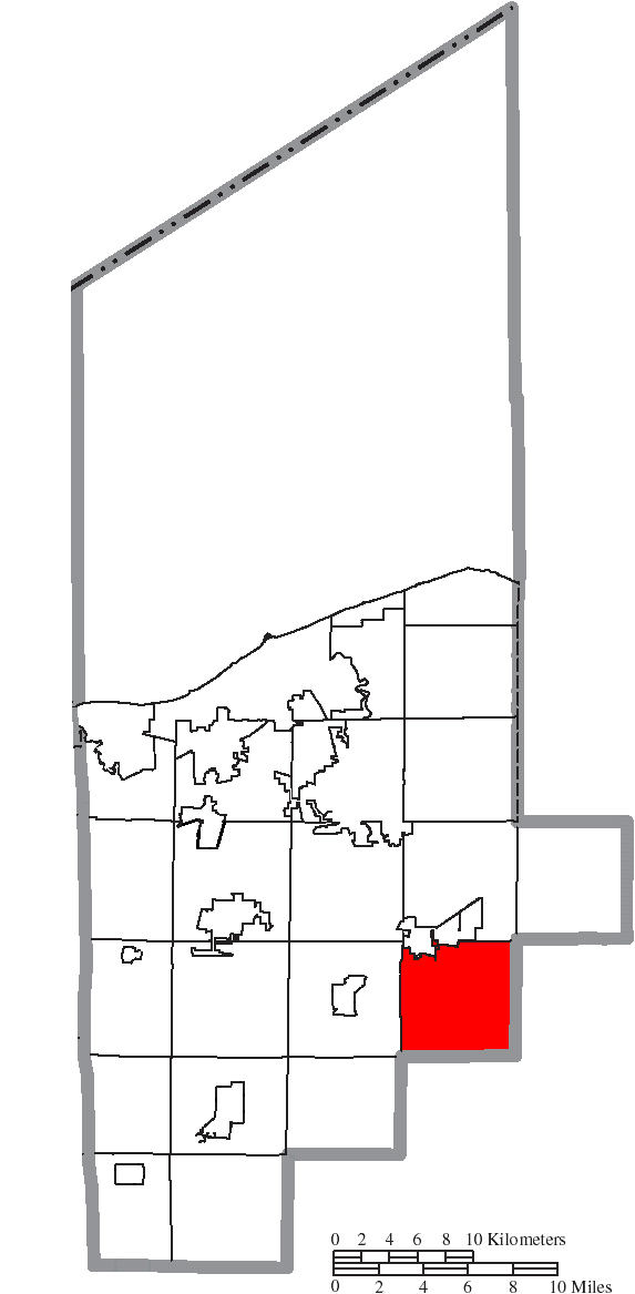 Map of the municipal and township boundaries of Lorain County, Ohio, United States, as of the 2000 census, with the location of Grafton Township highlighted. Township borders are shown only in unincorporated areas in order to differentiate incorporated and unincorporated areas more clearly.